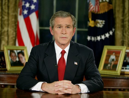 President George W. Bush addresses the nation from the Oval Office at the White House Wednesday evening, March 19, 2003, announcing the beginning of Operation Iraqi Freedom. THE PRESIDENT: My fellow citizens, at this hour, American and coalition forces are in the early stages of military operations to disarm Iraq, to free its people and to defend the world from grave danger... Image obtained from